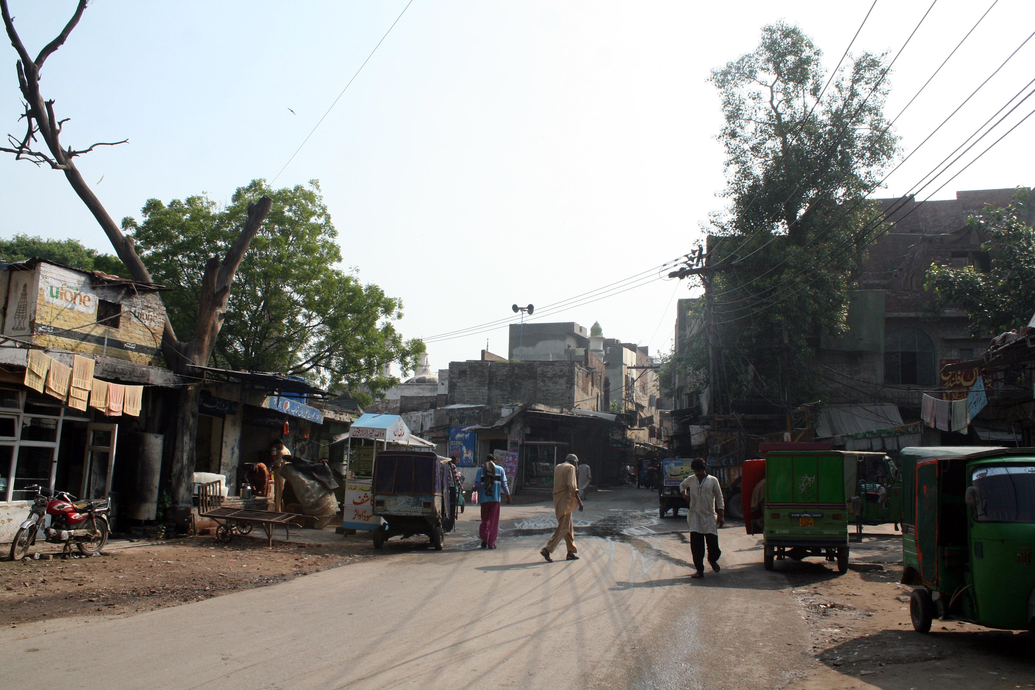 Taxali Gate This is a photo of a monument in Pakistan identified as the PB-55